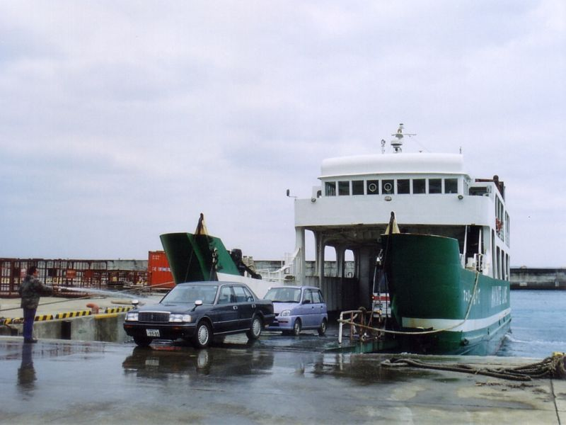 Ferry Hayate,JAPAN